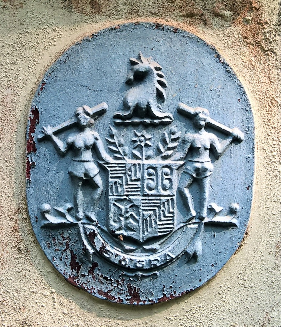 Mohammed Ali Palace Museum & Park also known as Palace Museum in Bogra is the eminent archaeological sight located in Bogra.